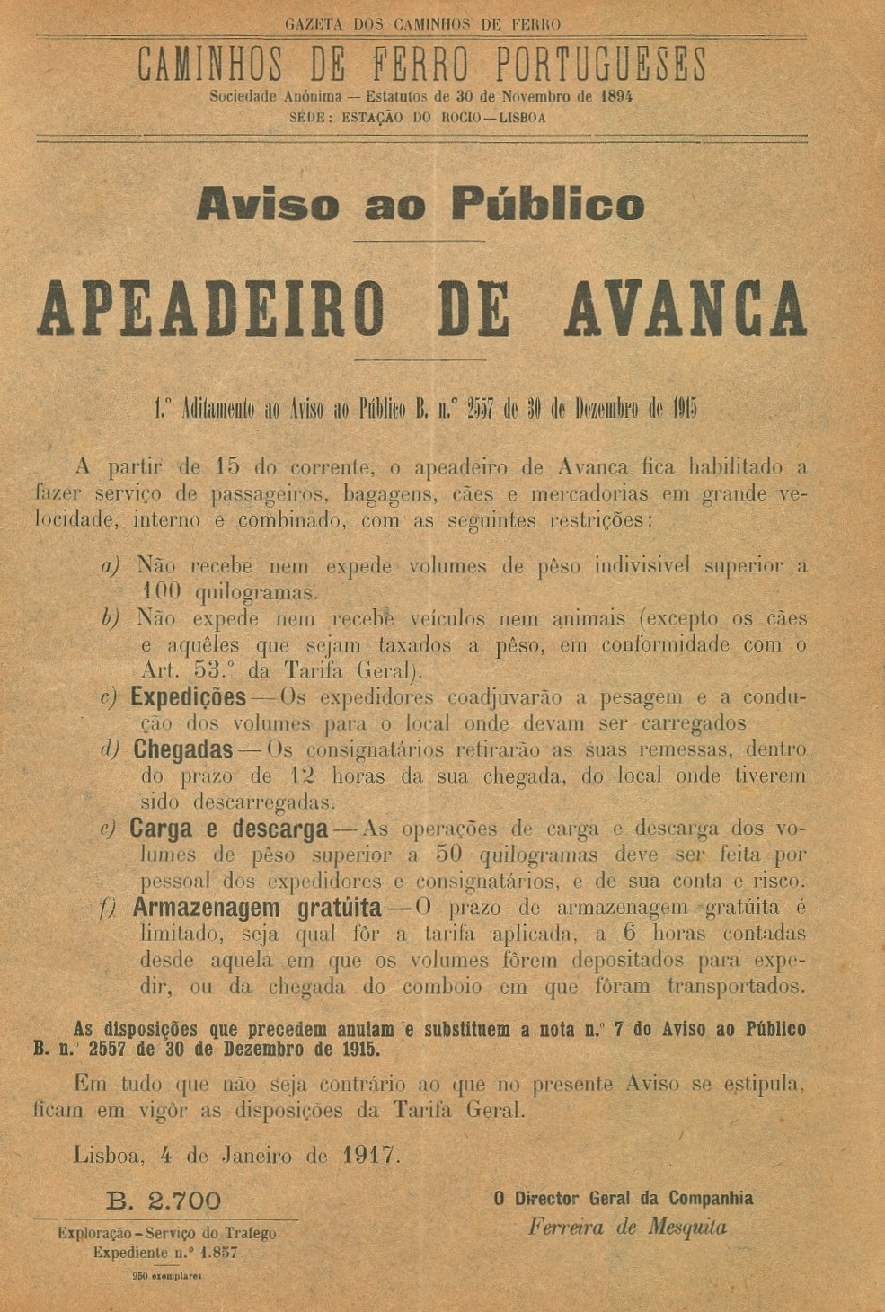 Public announcement of the Companhia dos Caminhos de Ferro Portugueses (Portuguese Railways Company), changing the service conditions of the Avanca halt, in the Linha do Norte (Northern Railway). This image was published on the Gazeta dos Caminhos de Ferro magazine no. 700, of the 16th February 1917, and scanned by the Hemeroteca Municipal de Lisboa.